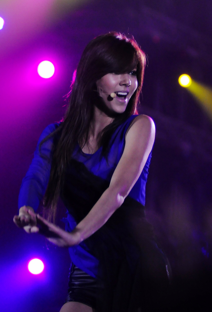 Son Dam Bi in Vietnam, on Nov 29, 2012